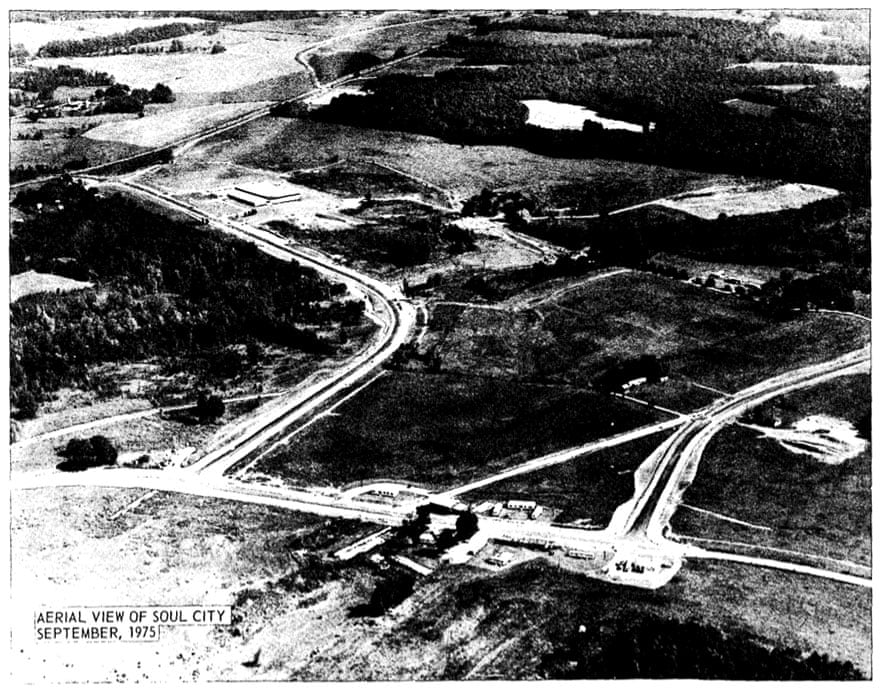 Aerial photograph of Soul City